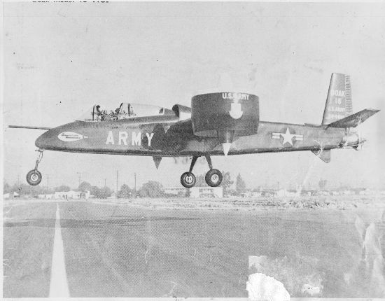 The Doak Model 16 (VZ-4) experimental VTOL aircraft hovers during U.S. Army flight testing, circa 1958.